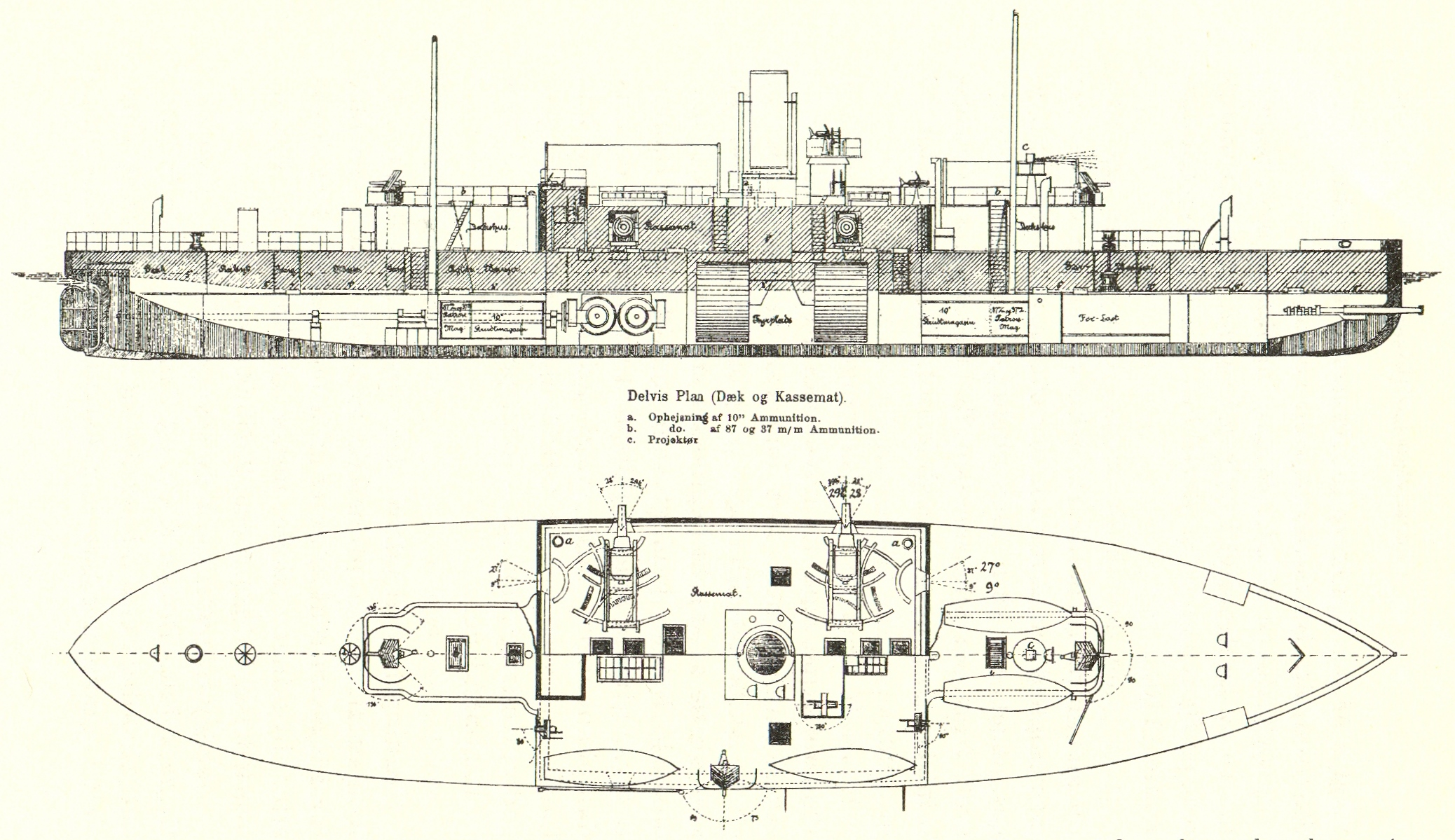 Danish Ironclad Odin, launched 1872 and serving 1874-1912. The Plan shows the gun arrangement in a central battery.